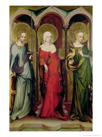 St. Catherine of Alexandria, St. Mary Magdalene and St. Margaret of Antioch. Painting on the reverse of Trebon Altarpiece